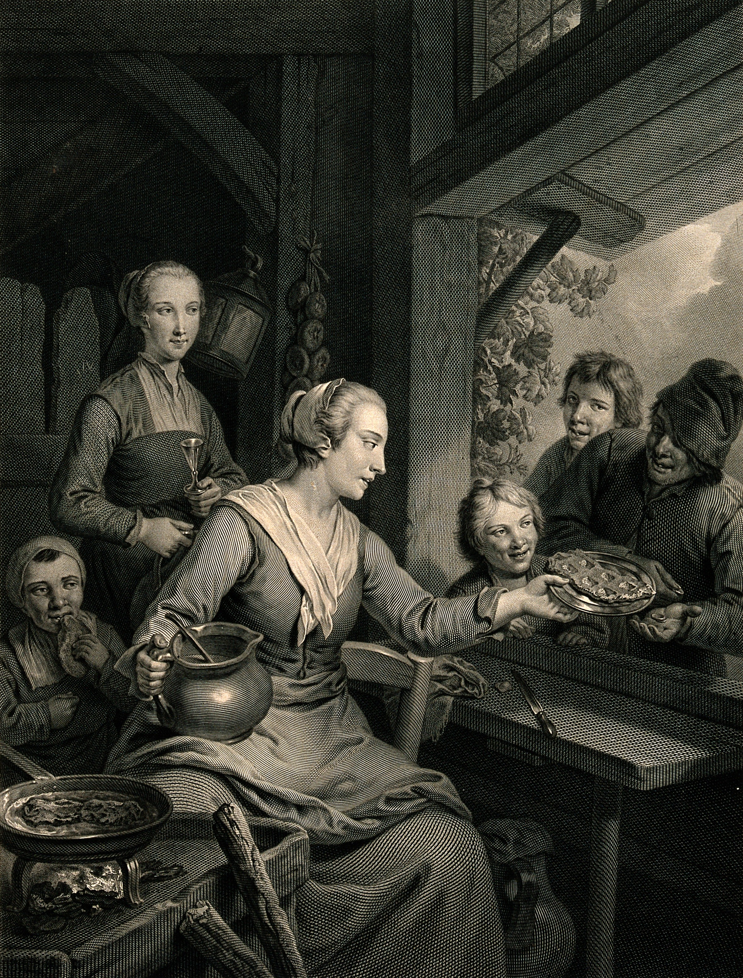 A woman is offering food on a plate to some children outside the window. Engraving by J.G. Wille after Dietricy. Iconographic Collections